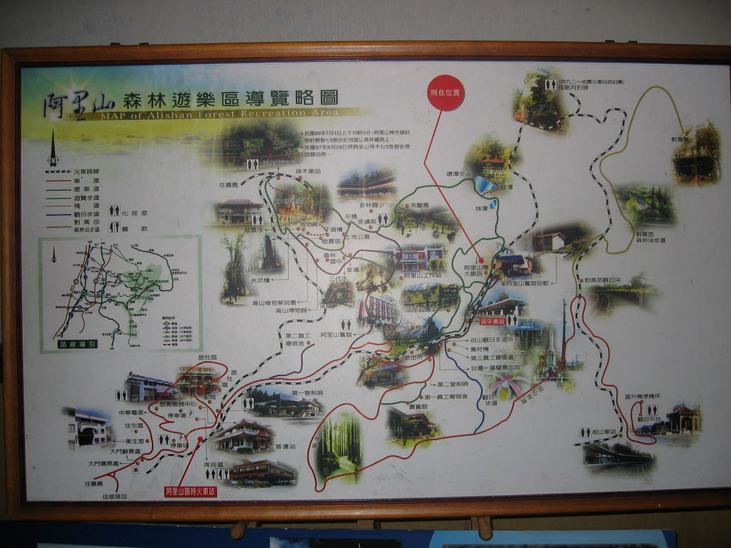 Map of Alishan Forest Recreation Area.